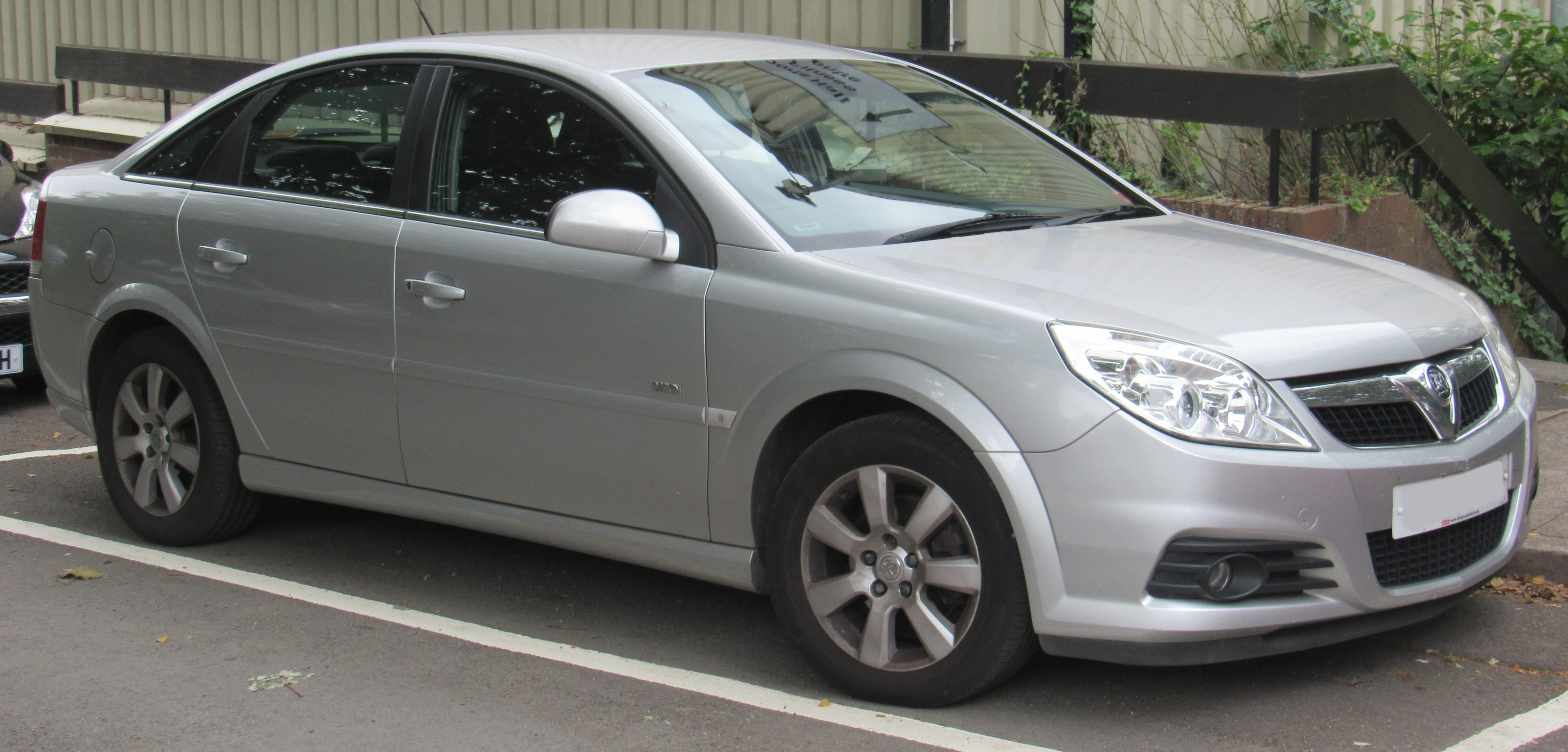 2007 Vauxhall Vectra Exclusive CDTi 150 Automatic 2.0 Front Taken in Leamington Spa